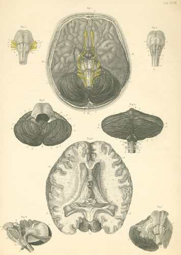 Anatomy plate from "Handbuch der Anatomie des Menschen", published 1841 in Leipzig, Germany.